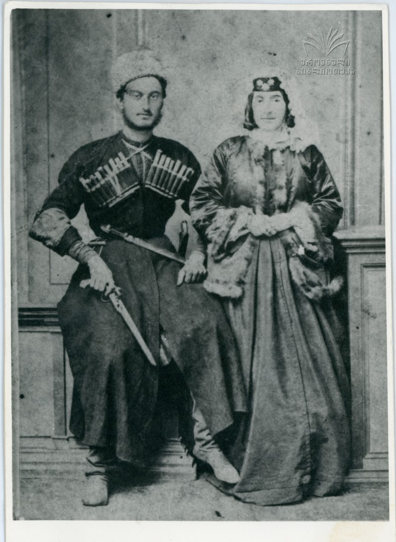 ტახტის აზნაური იაგორ ბერიძე დედასთან ეკატერინე ჭალაკანიძესთან ერთად